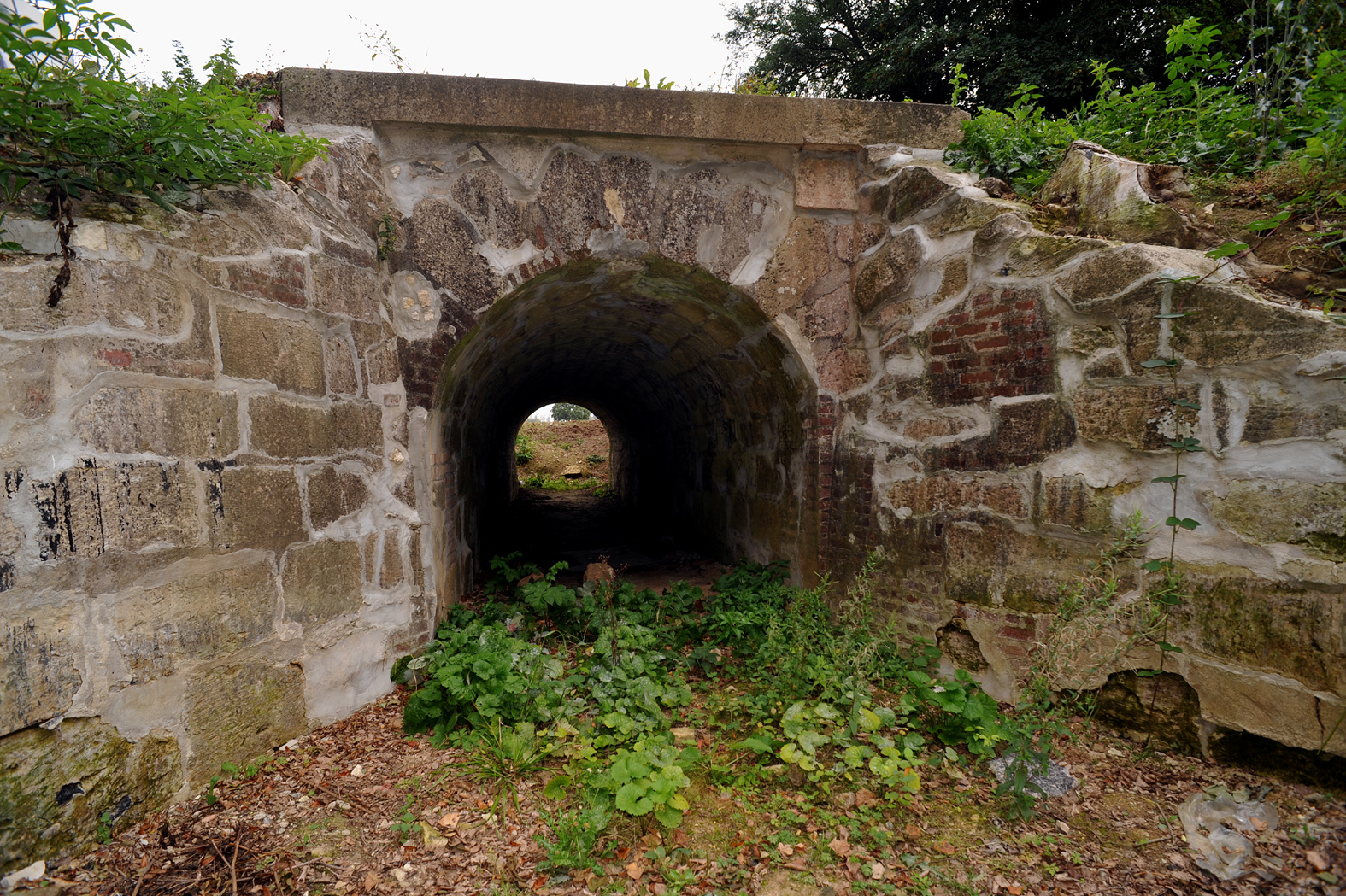 Pont romain de Domqueur, classified as the oldest bridge in Northern France still supporting the Chaussée Brunehaut; Somme, France.